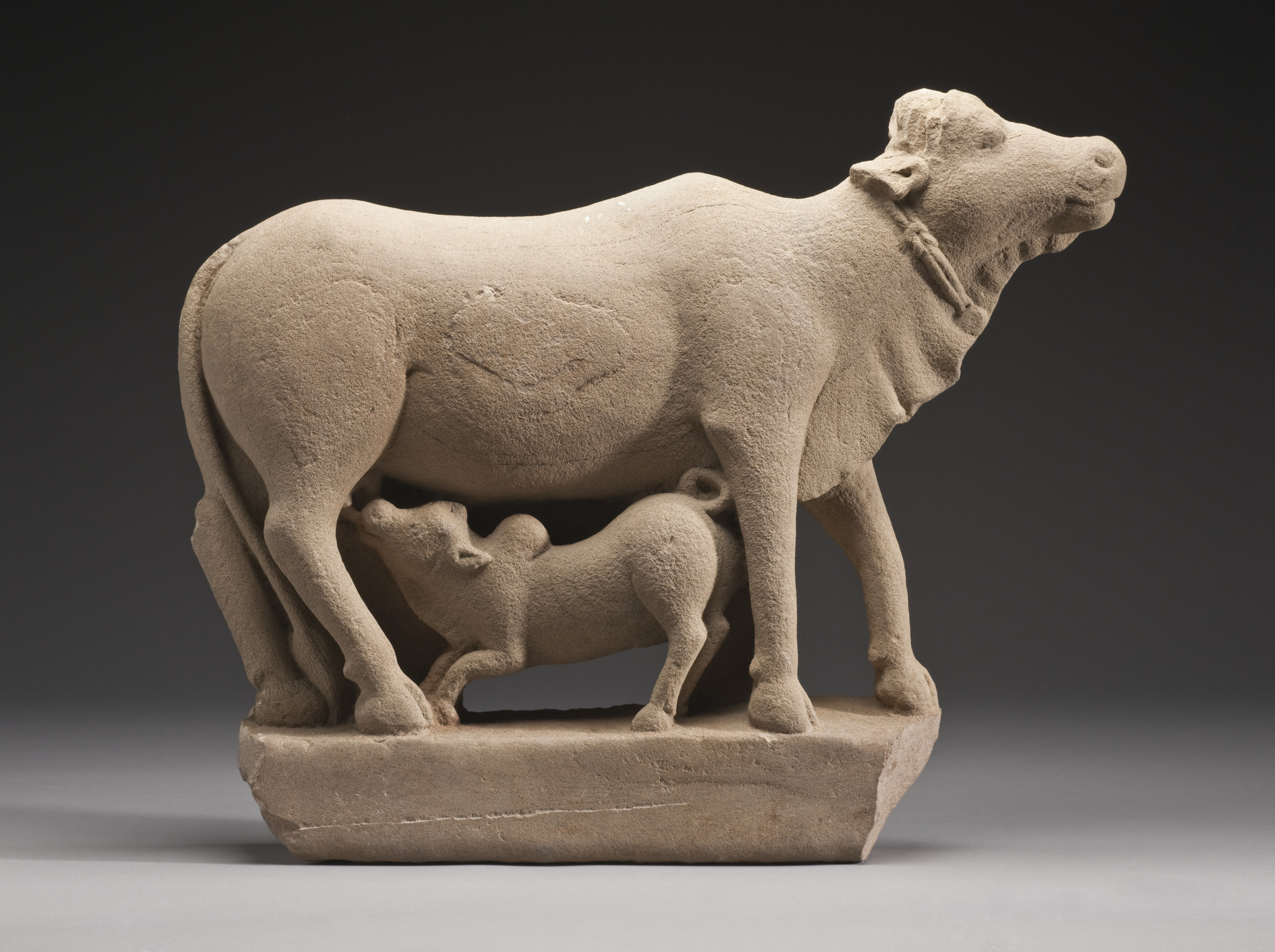 Cow and Calf India, Uttar Pradesh, late 7th century Sculpture Sandstone 20 1/2 x 26 1/2 x 5 in. (52.07 x 67.31 x 12.7 cm) Gift of Mr. and Mrs. Harry Lenart (M.73.87.2)